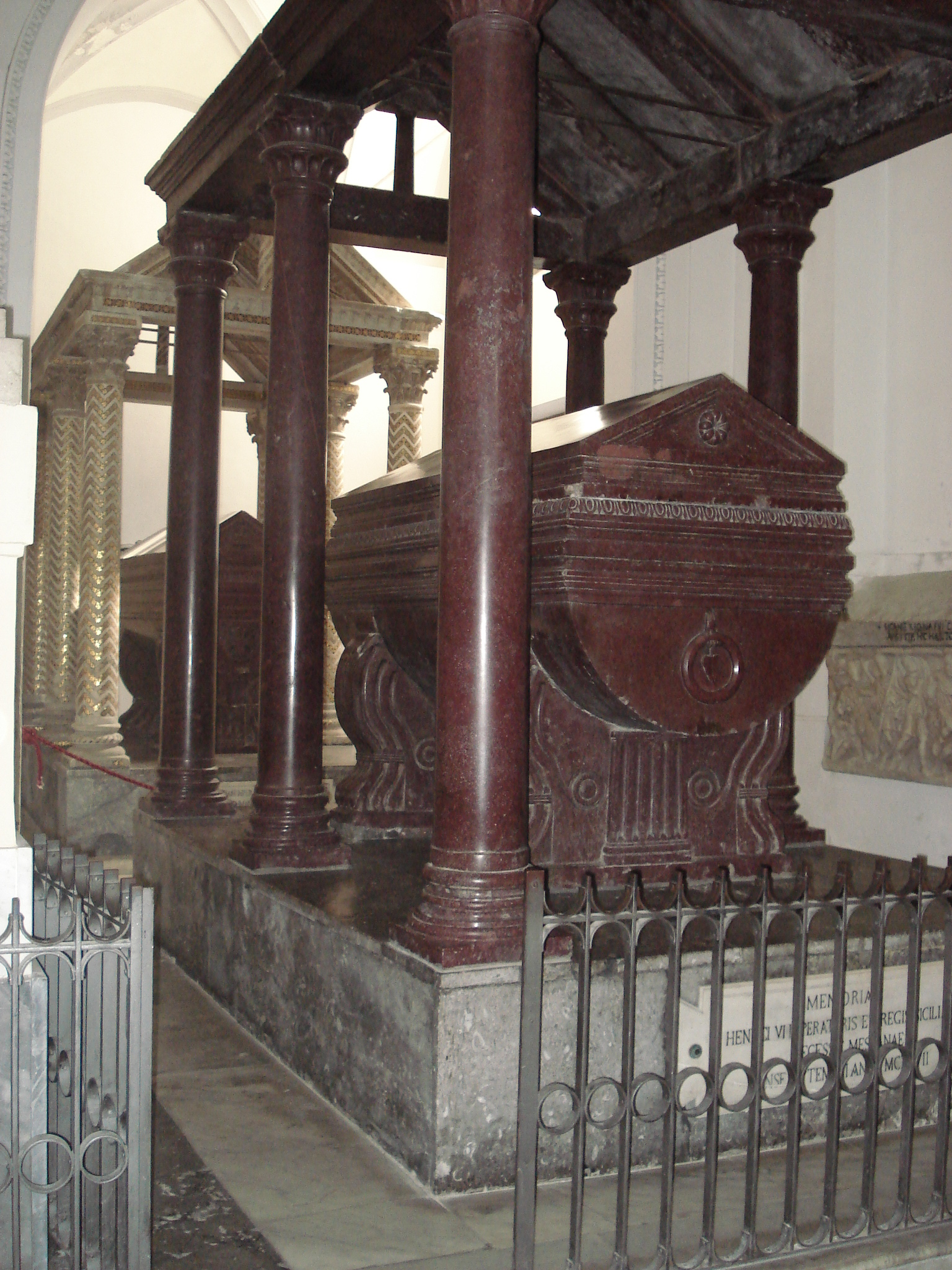 Porphyry sarcophagus of Henry VI, Holy Roman Emperor (1165-1197), in the Cathedral of Palermo (Sicily). Picture by Giovanni Dall'Orto, September 28 2006.